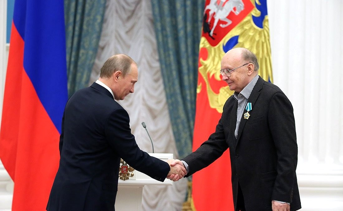 Portrait of russian actor Andrey Myagkov with President of Russian Federation Vladimir Putin